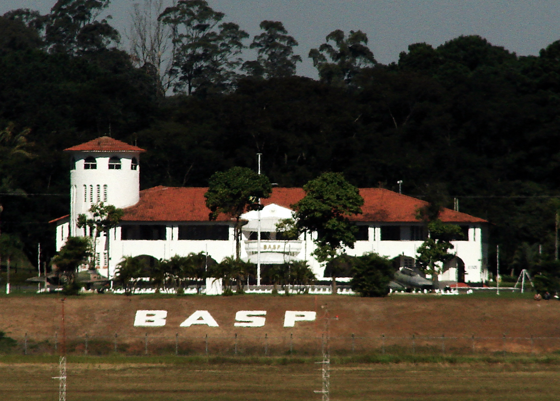 sao paulo air force base - spanish colonial revival architecture